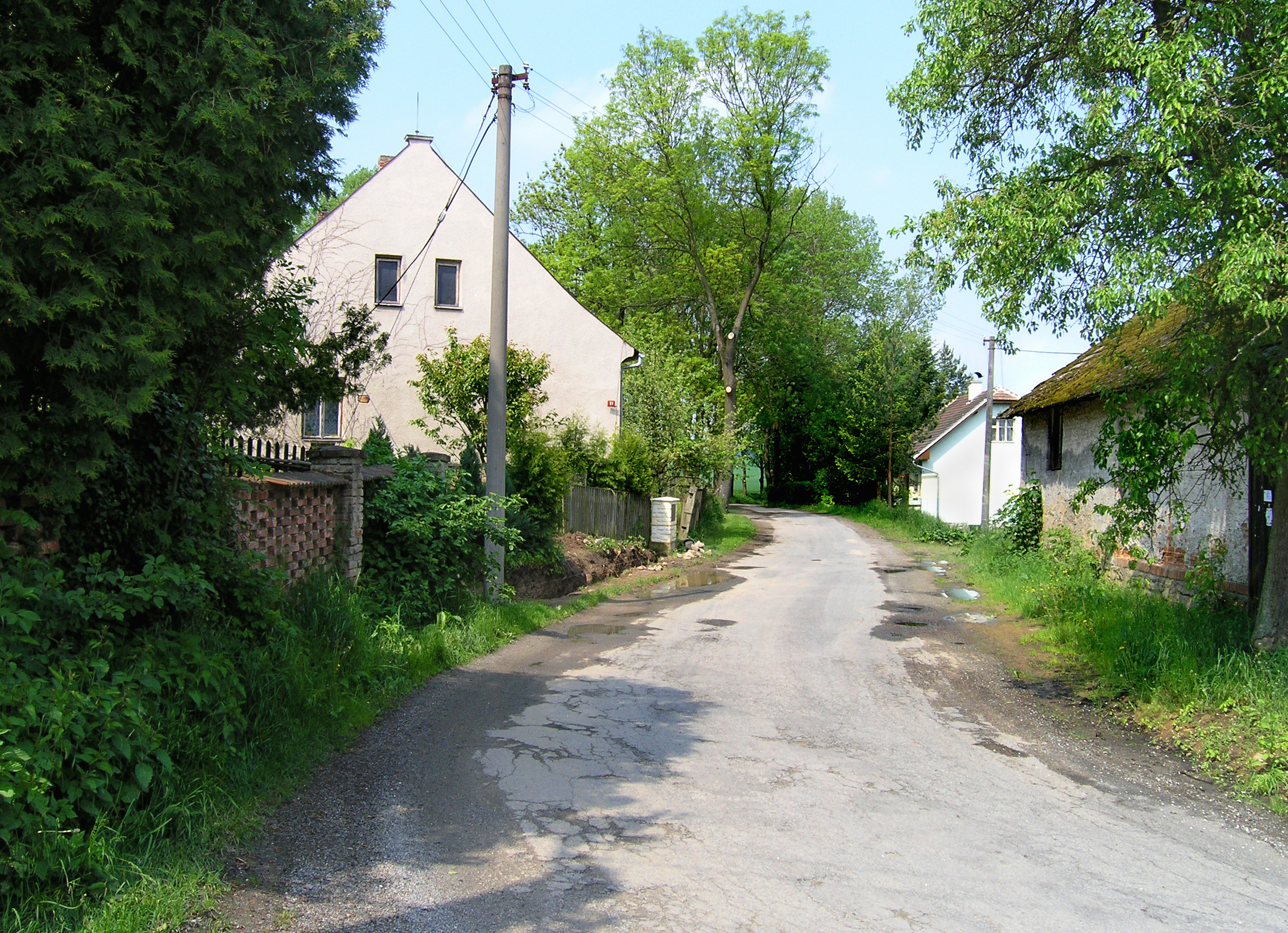 Dvorce, part of Kyjov village, Czech Republic